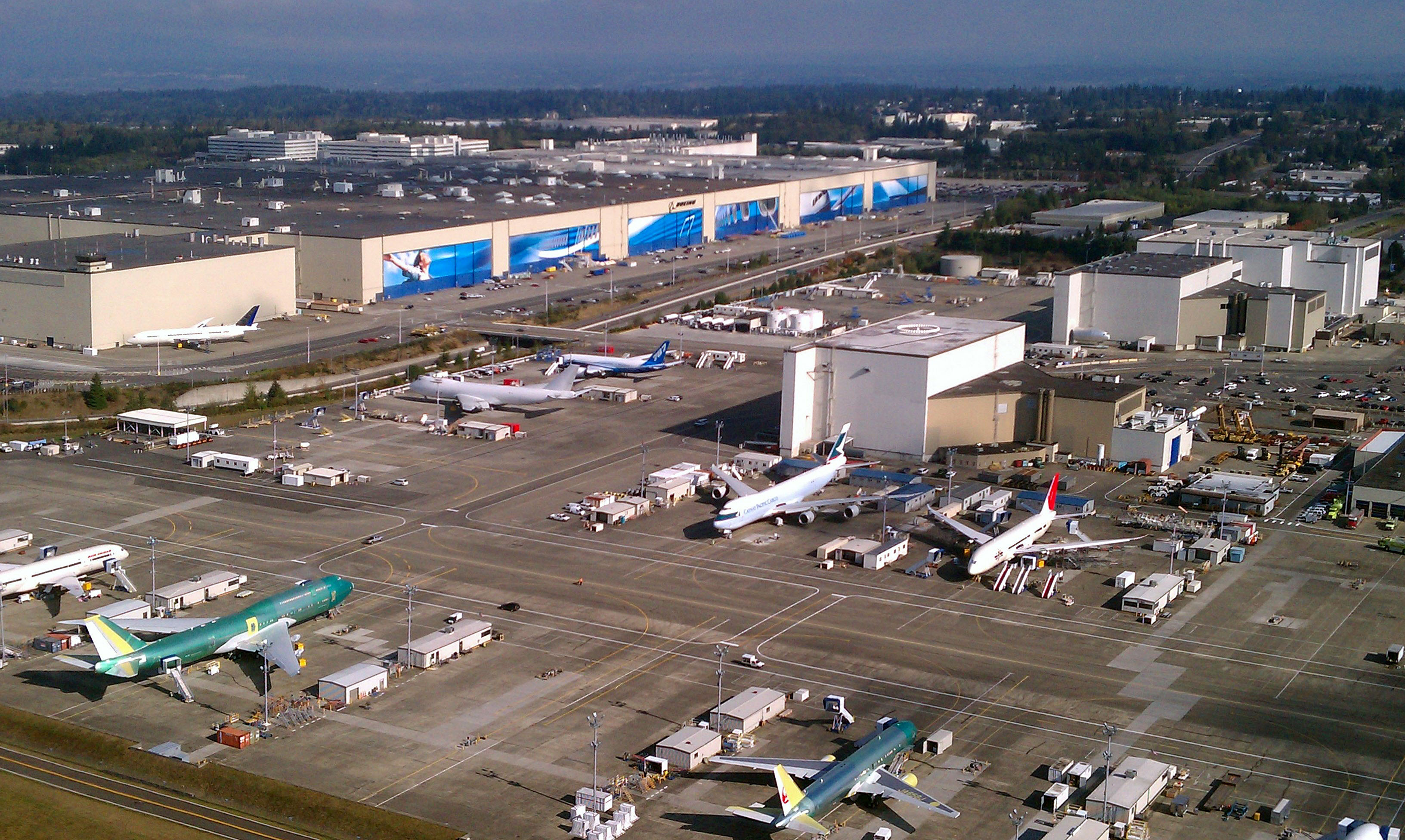 Boeing's widebody factory in Everett, Washington, shot from the air on October 15, 2011